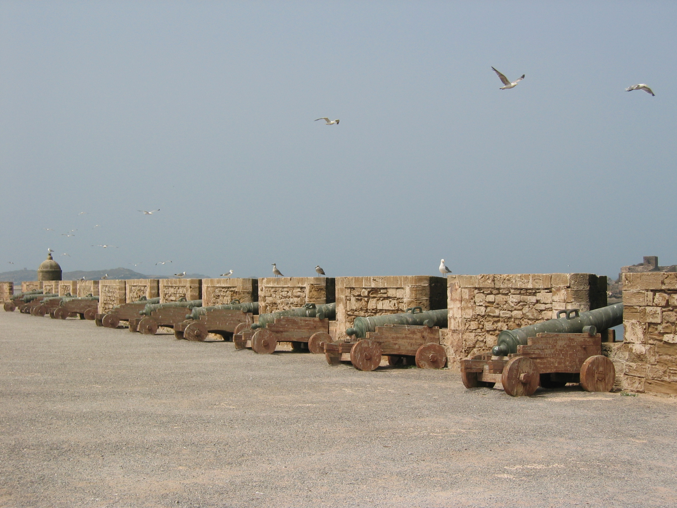 Spanish cannons of Essaouira